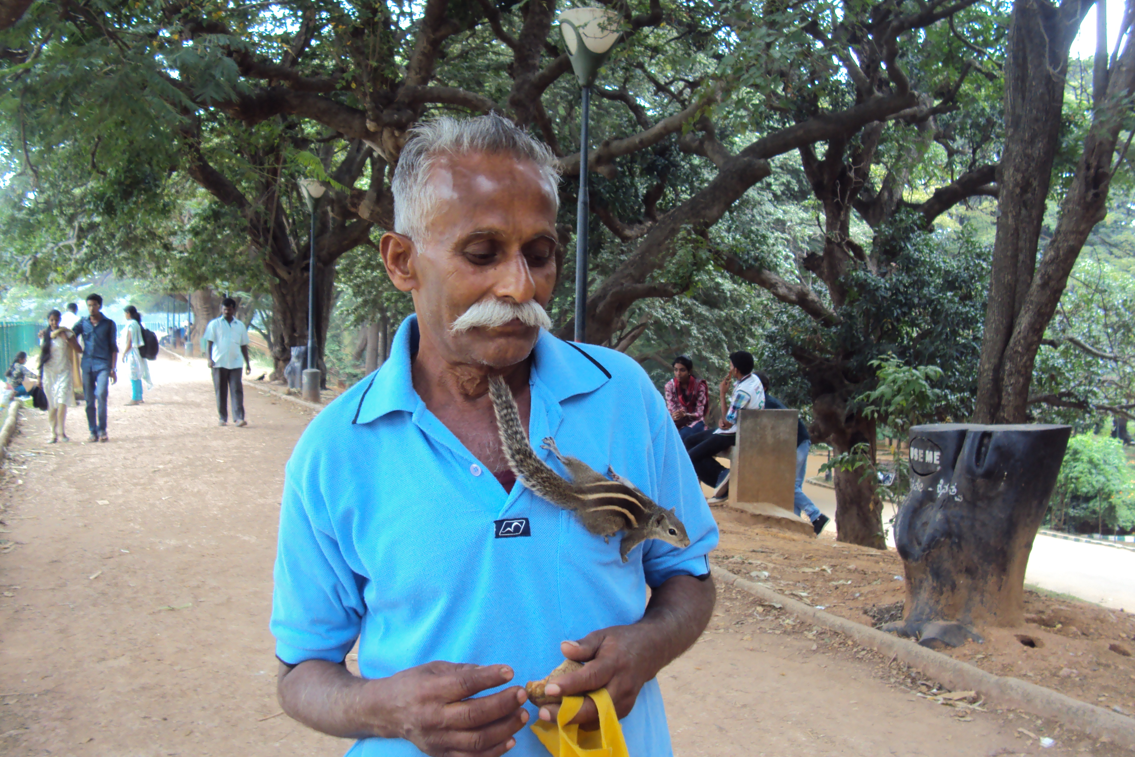 It is one of the most beautiful friendships I have seen, a man with a chipmunk. I met this friend unexpectedly at Lal Bagh Botanical Garden, Bangalore, India